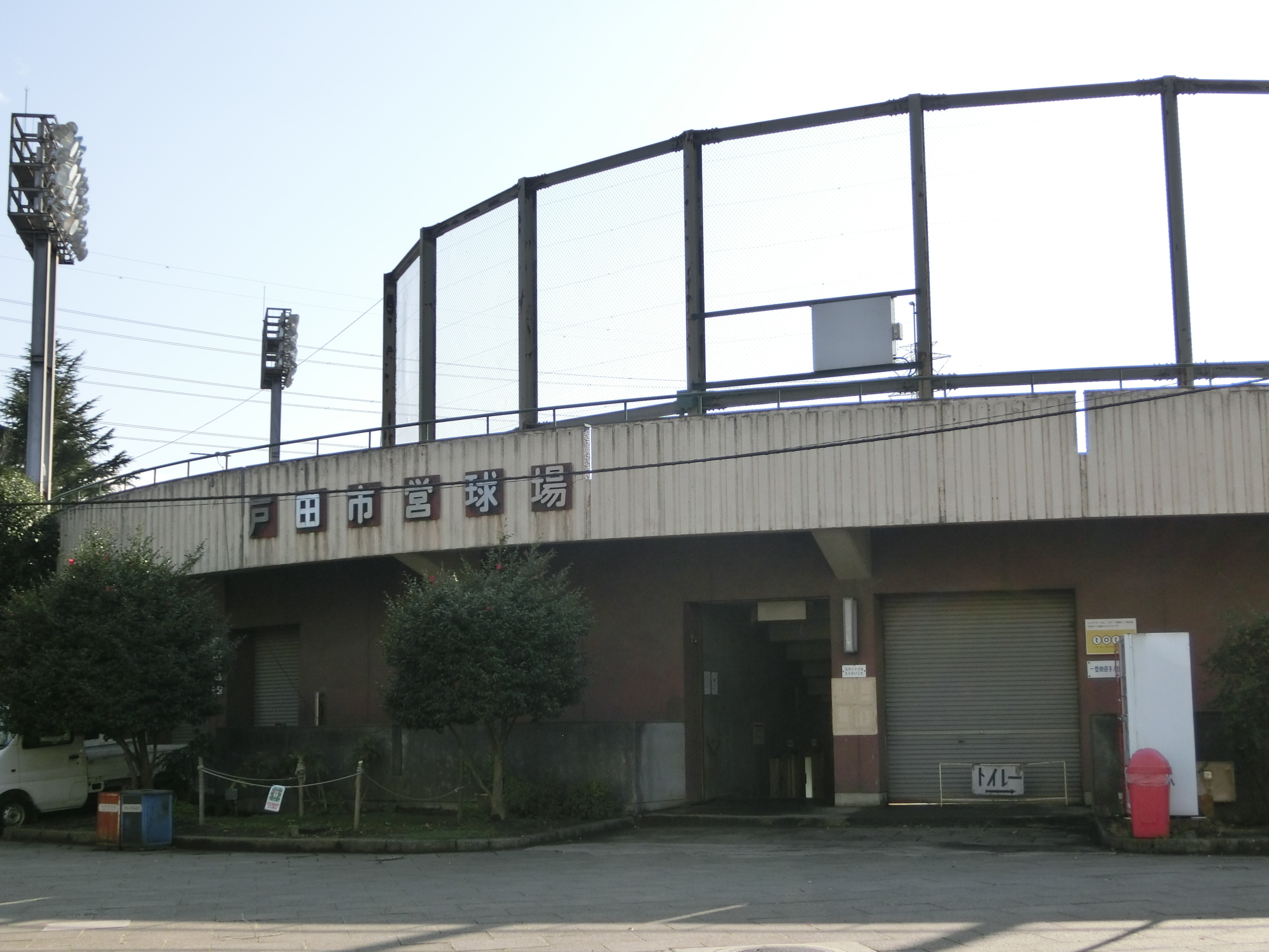 Toda Municipal Baseball Stadium